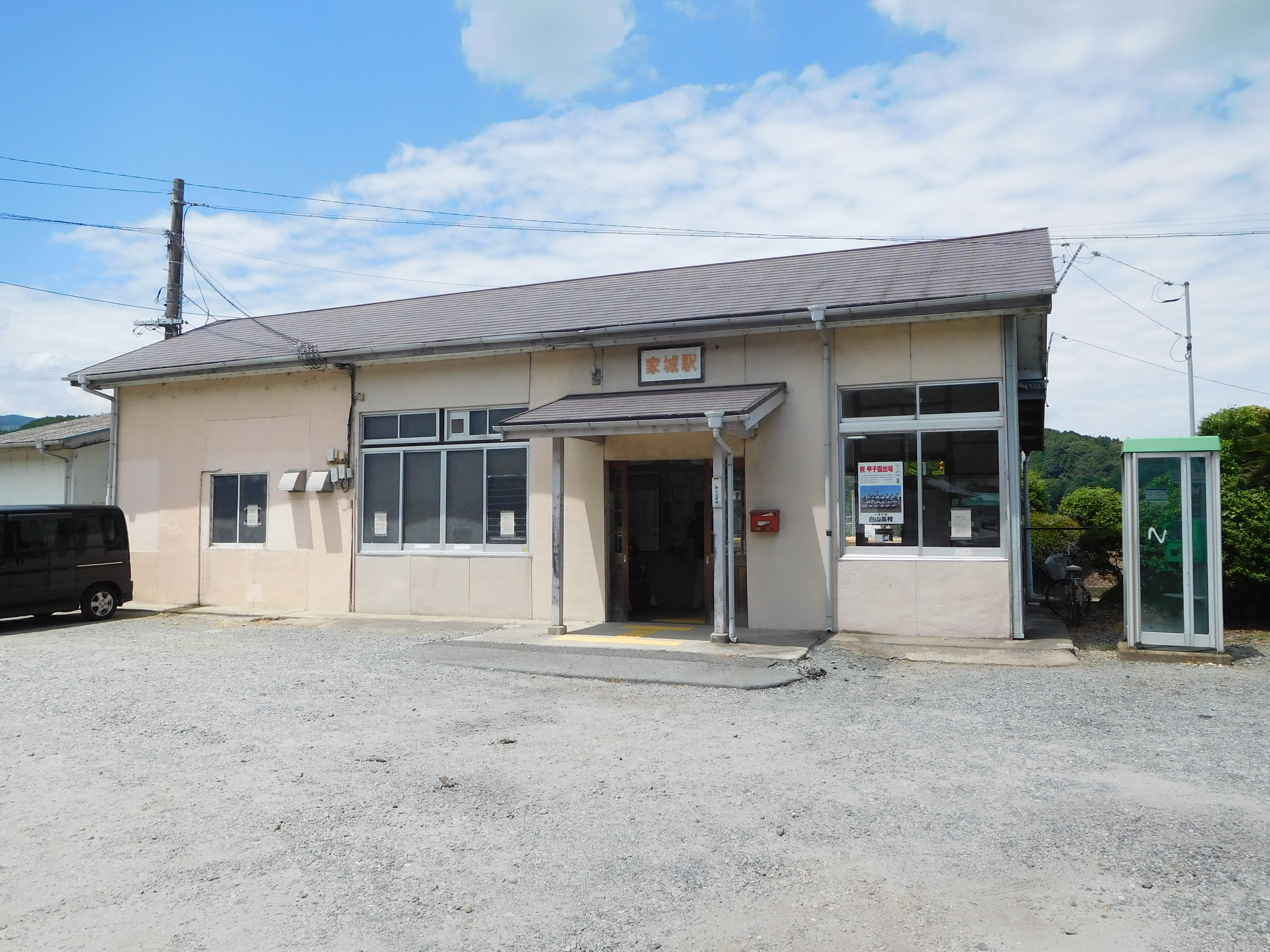 This is JR Meisho Line Ieki station, Tsu, Mie, Japan.